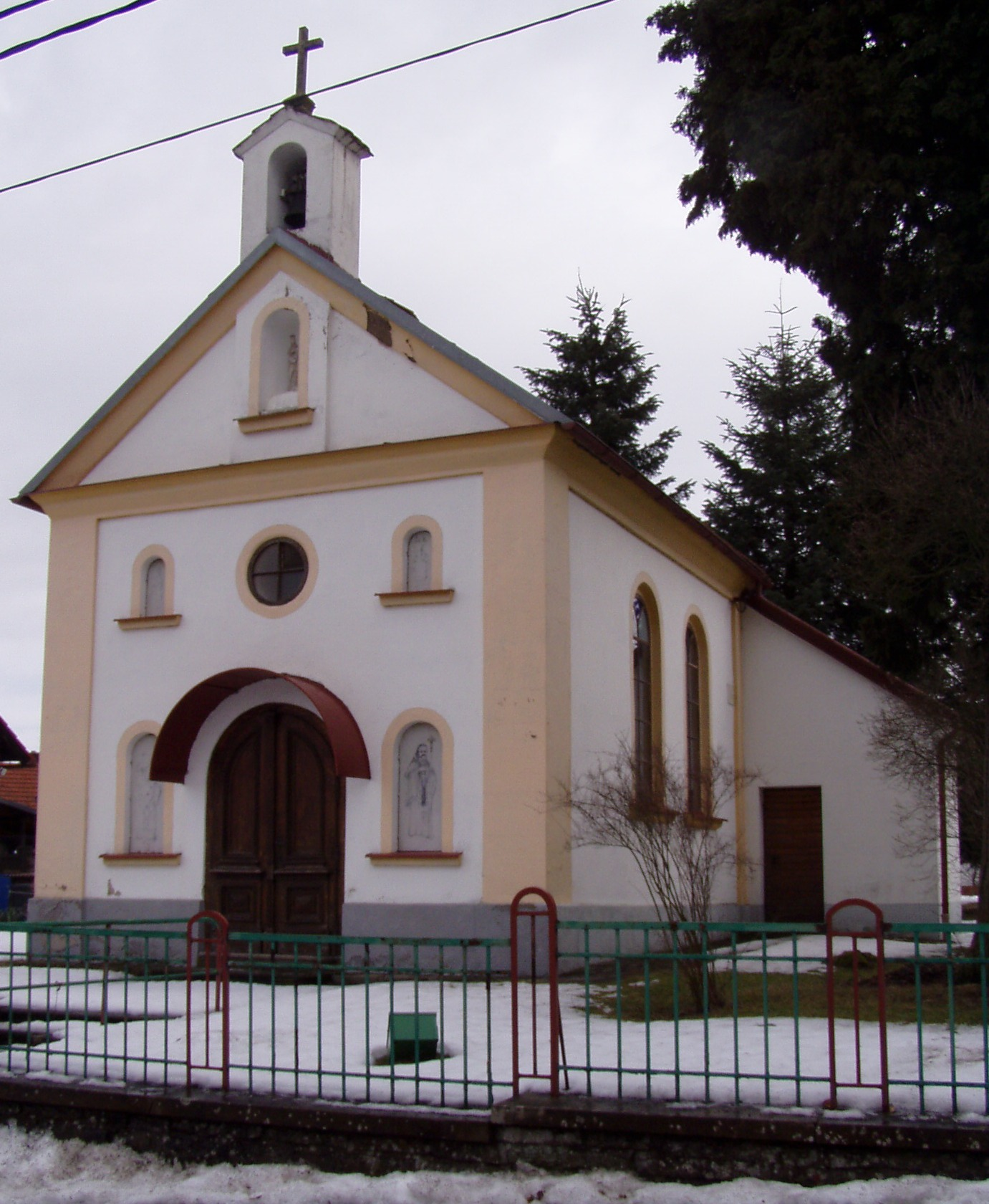 Spy - Chapel of Virgin Mary1